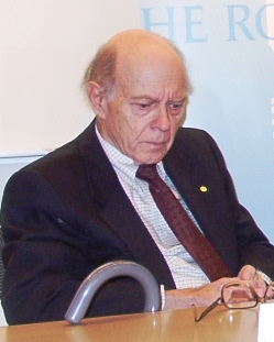 The image of Nobel Laureate in Chemistry, Irwin Rose